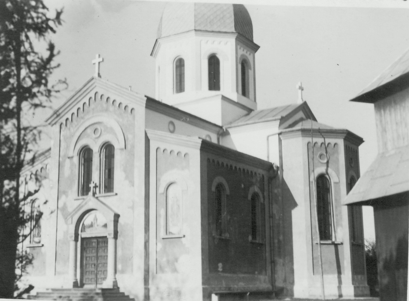 Church in Pătrăuții de Sus, Storojineț, Ukraine (image from the archive of the Metropolitan of Moldavia, 1936, free of copyright)